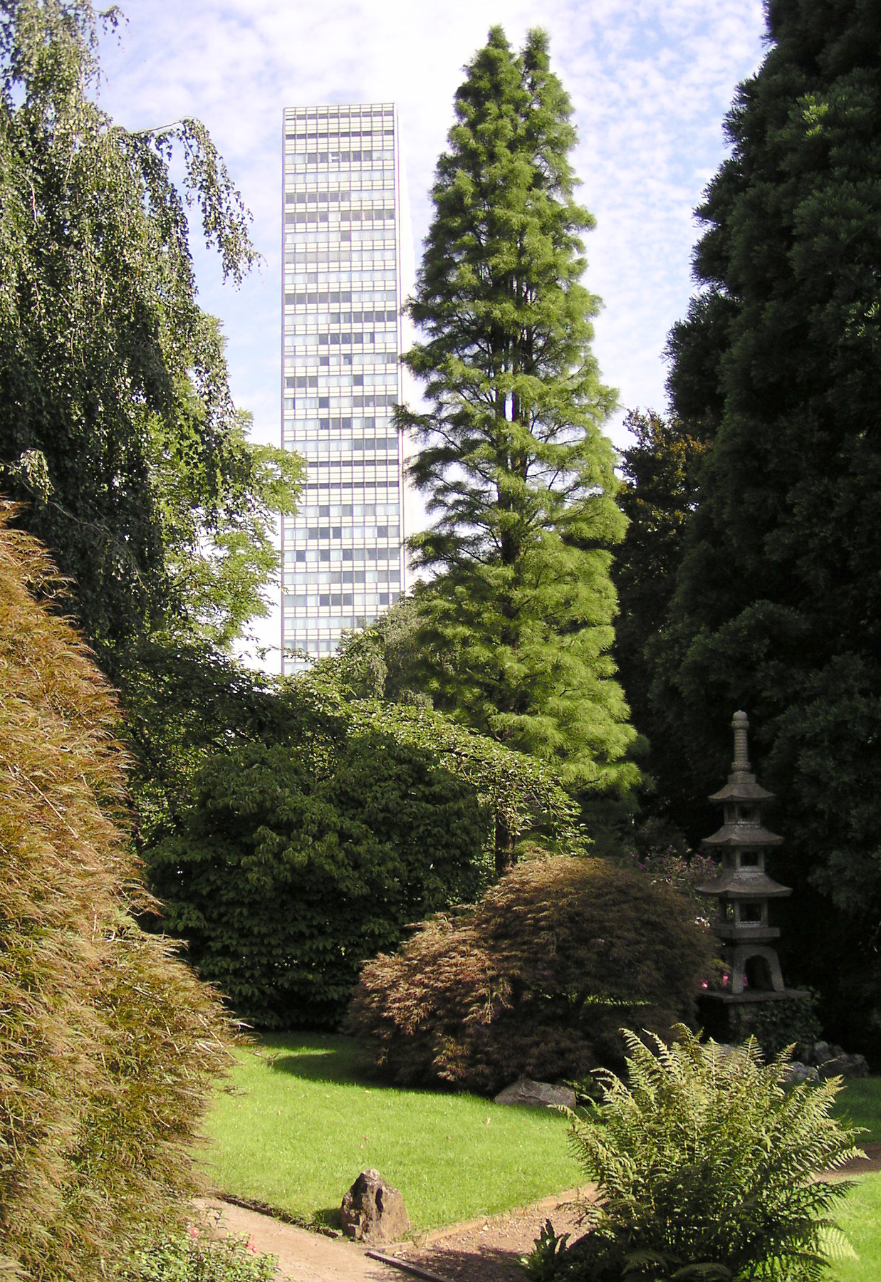 Description: Bayer-Hochhaus Leverkusen, view from Japanese Garden, August 2005. Photographer: Arcturus Licence: GFDL + cc-by-sa-2.0-de